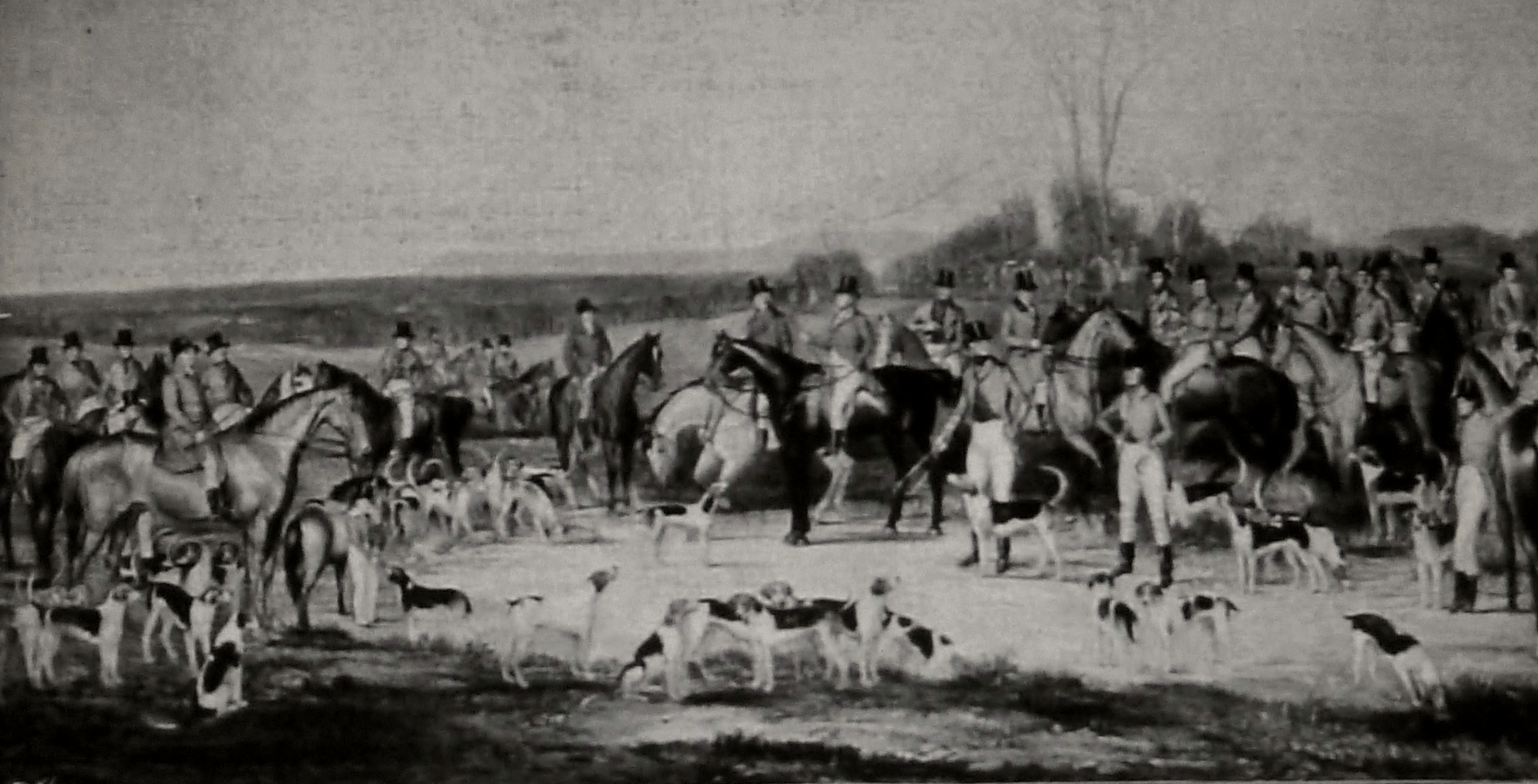 1842 painting by Anson A Martin, of the Bedale Hunt, of Bedale, Yorkshire, England.